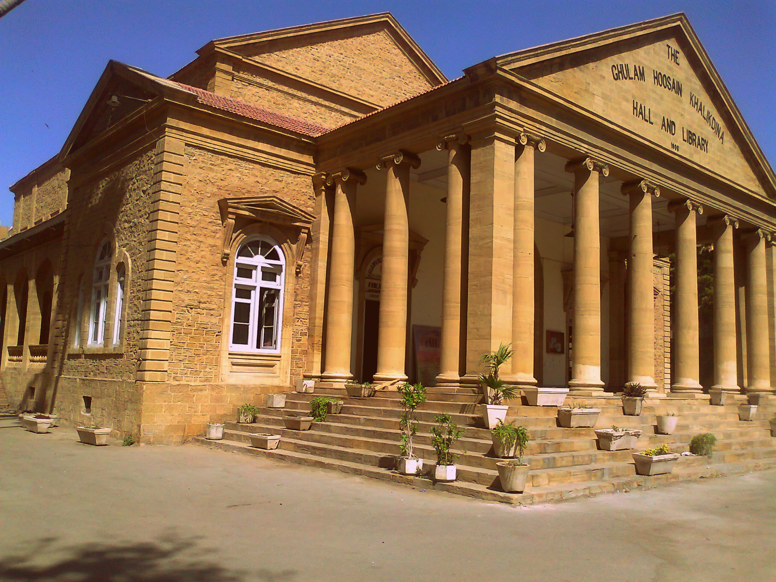 Khaliq Deena Hall and Library This is a photo of a monument in Pakistan identified as the SD-33